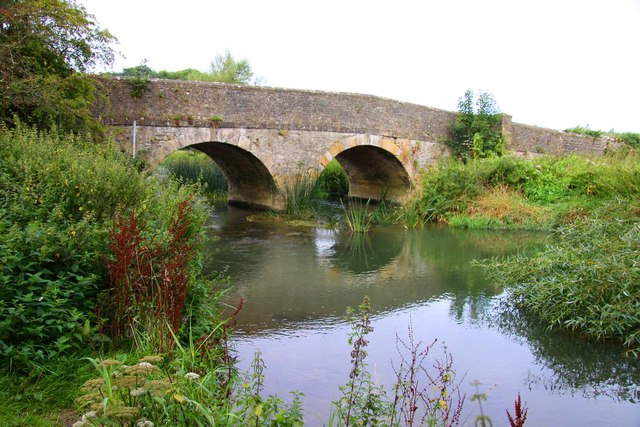 Road bridge on the minor road between Combe and Long Hanborough, crossing the River Evenlode and the parish boundary